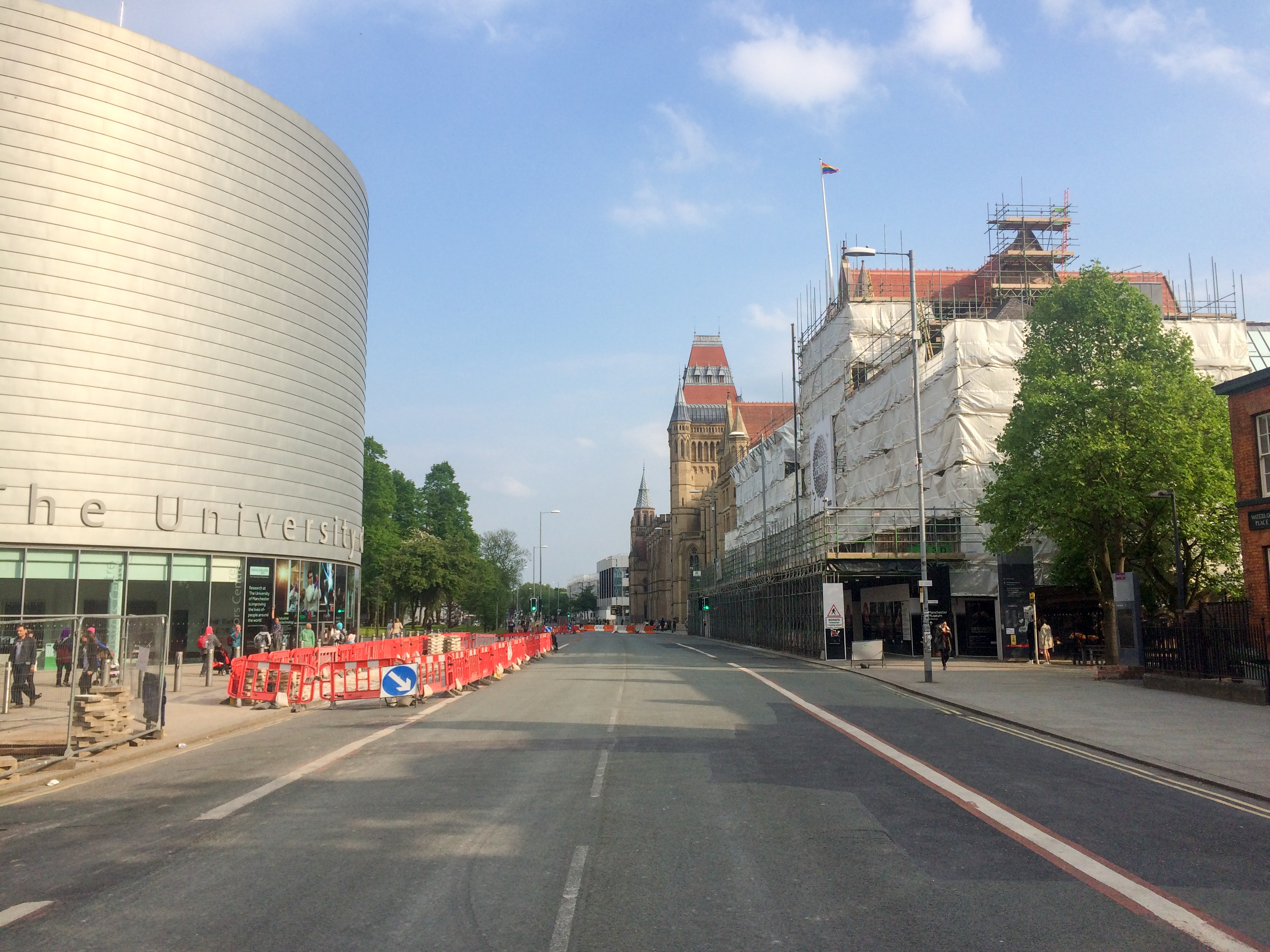 Oxford Road, Manchester, United Kingdom